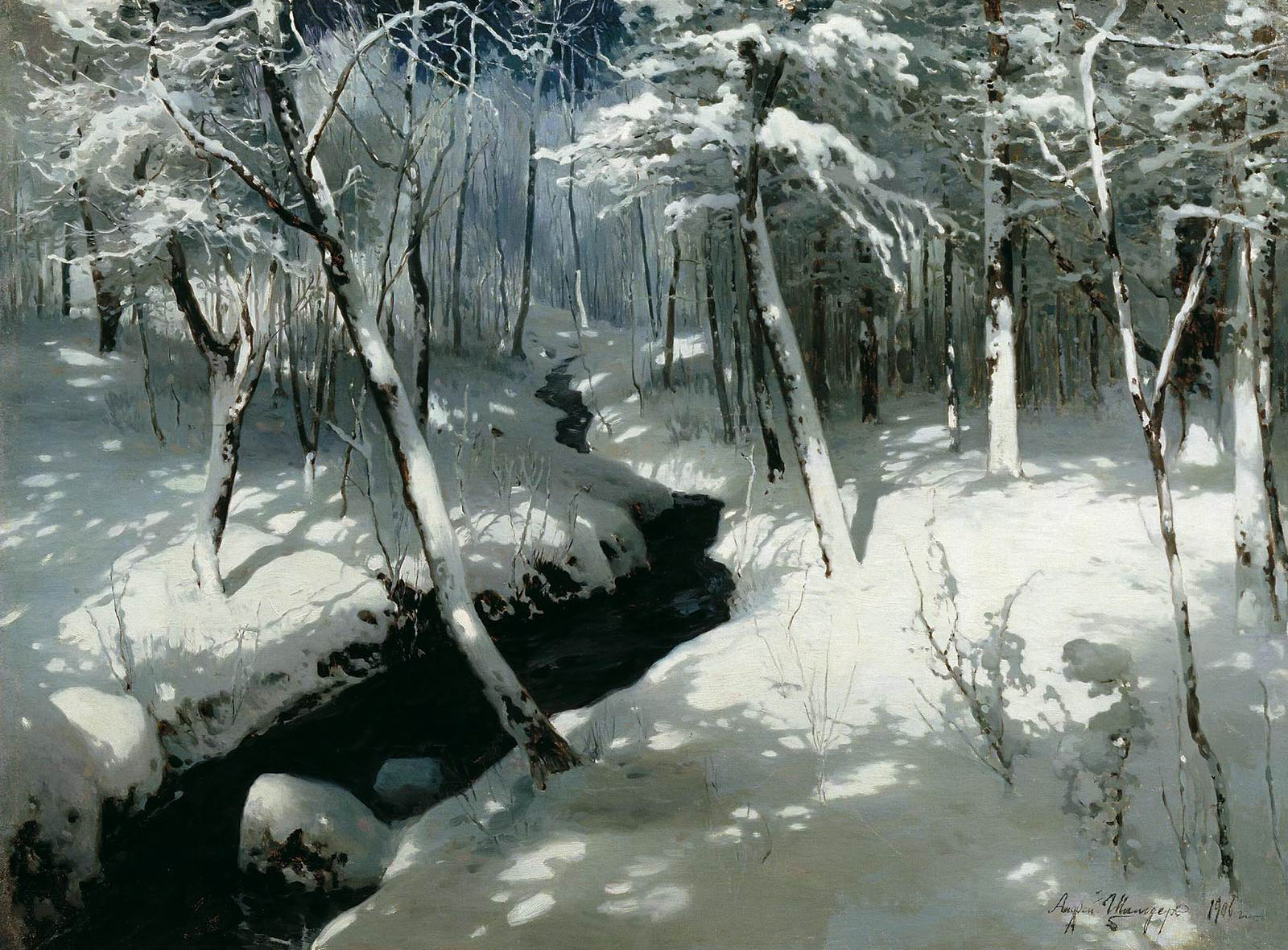 Andrey Shilder. The Stream in Forest (1906).